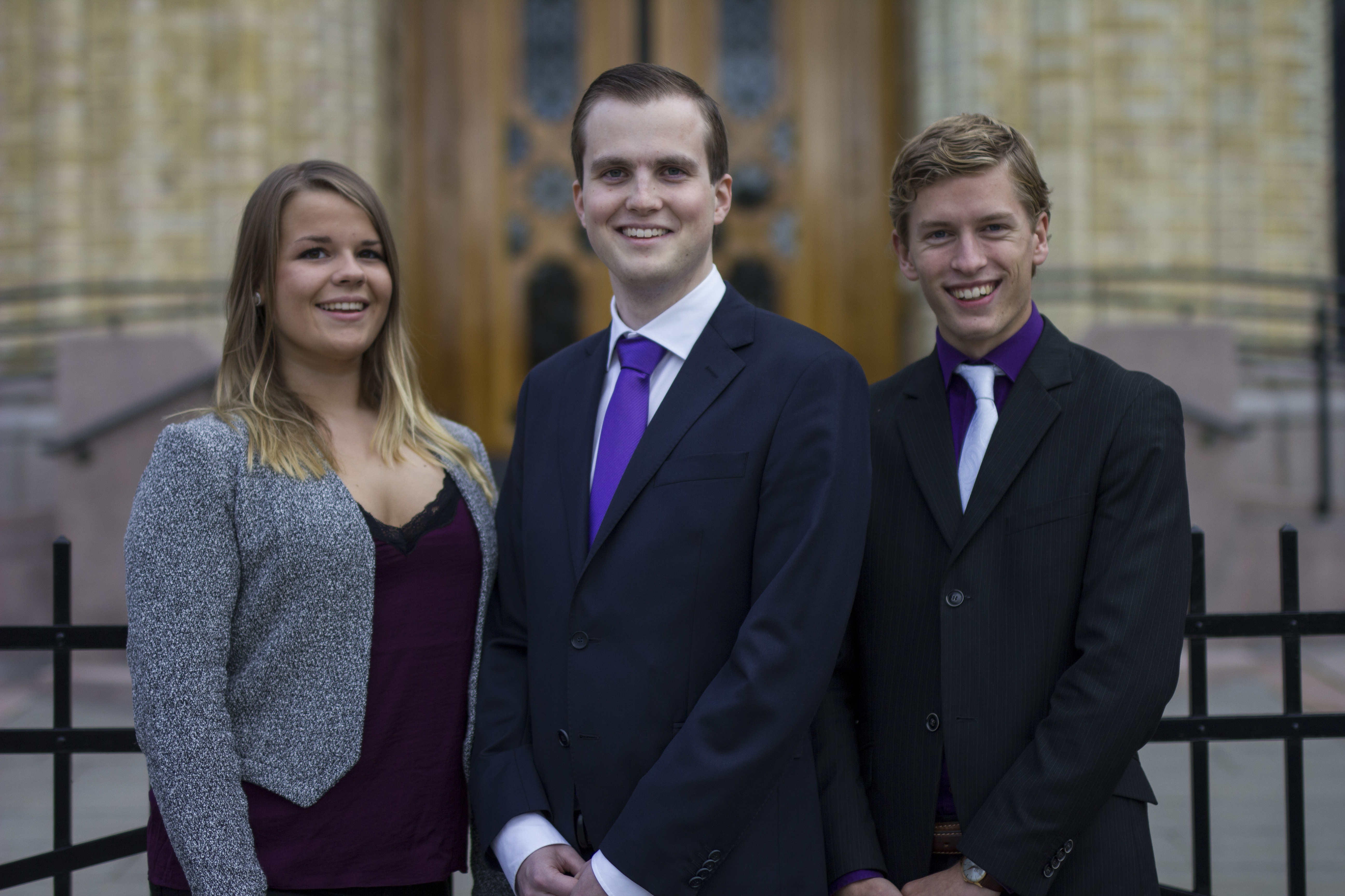 Leadership of The Capitalist Party, Norway. From the left: Agnethe Johnsen, second leader, Espen Hagen Hammer, leader, and Petter Hagelien, leader of Liberal Youth (youth wing).